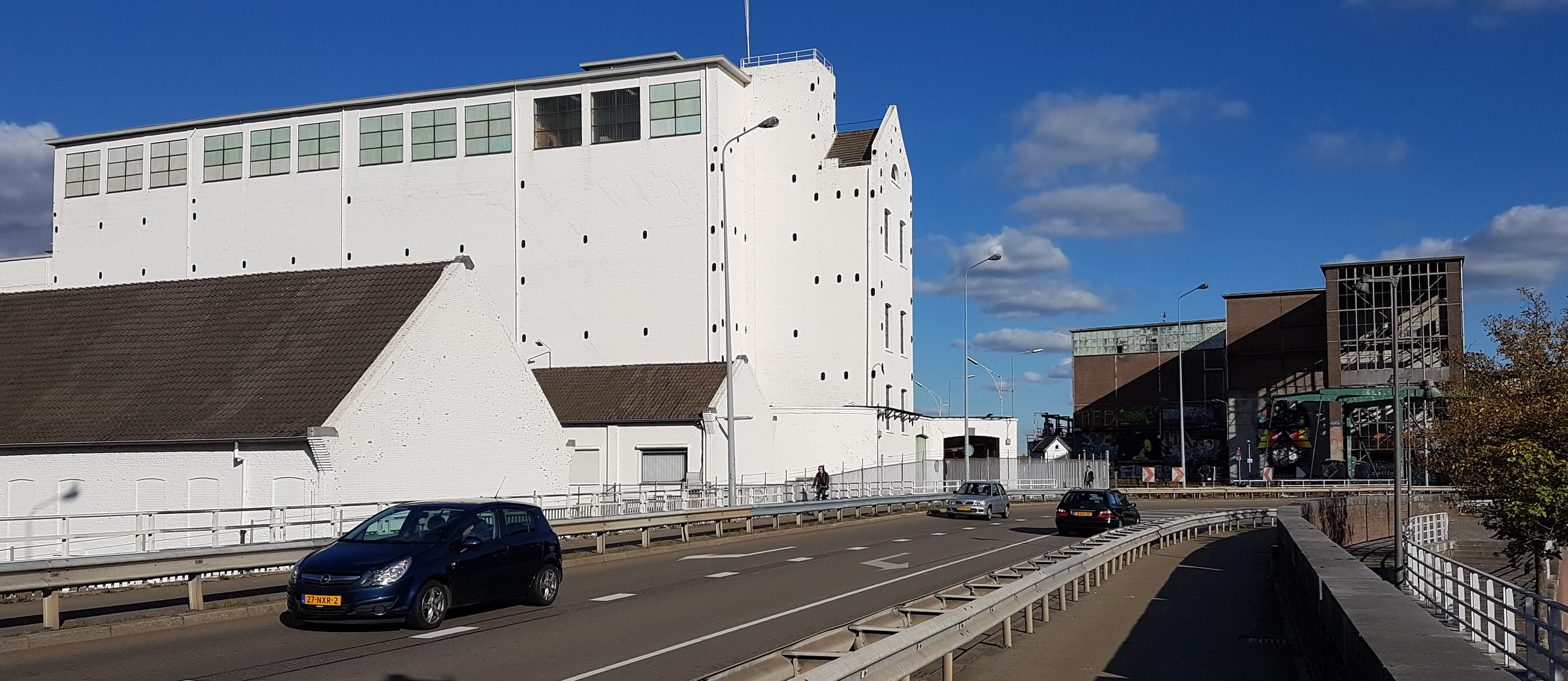 View from the west of 1850s paper factory (now SAPPI) and Landbouwbelang at Bassin in Maastricht, the Netherlands.